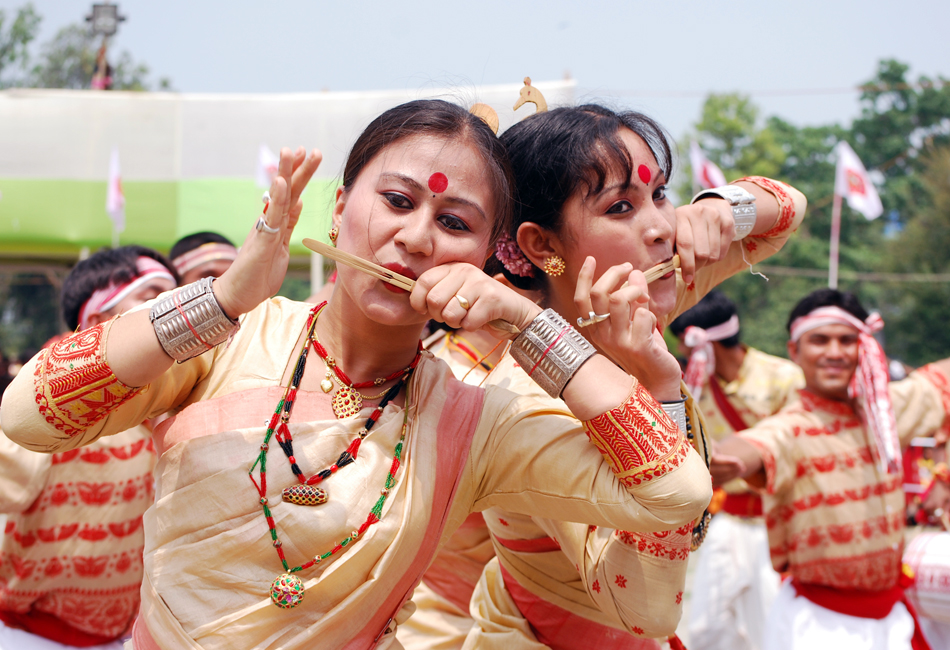 A musical instrument that is played during the bihu and made of bamboo sticks. There are two types of gogona- Ramdhon gogona and Lahori gogona. Ramdhon gogonas are played by the male bihu dancers and lahori gogonas by the female ones. অসমীয়া: গগণা